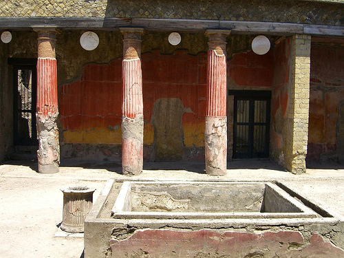 The ruins of Herculaneum, Italy - Casa del Rilievo di Telefo